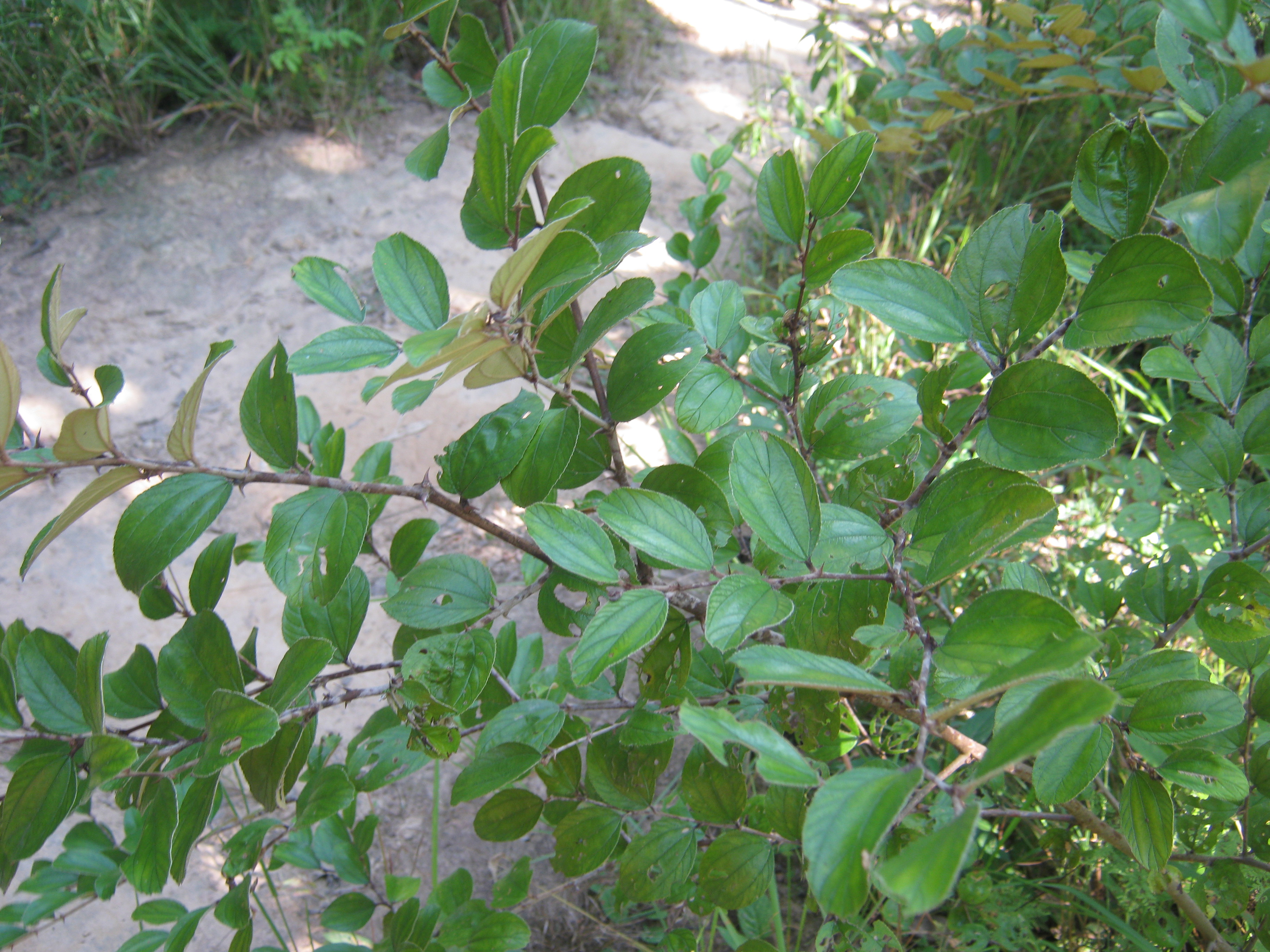 A nepali shrub that bears edible fruit.